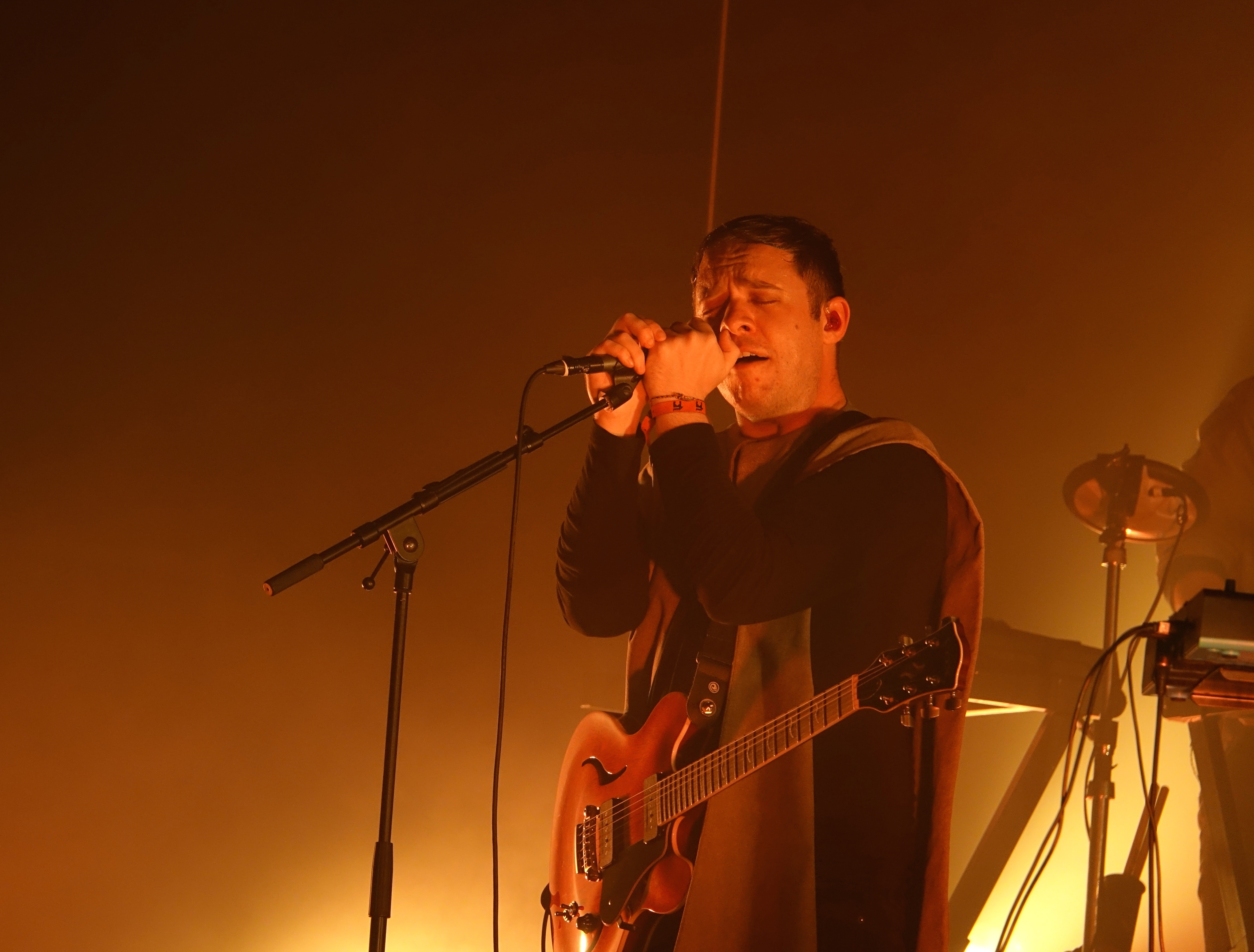 Everything Everything performing at Deer Shed Festival in Baldersby Park, North Yorkshire, in July 2016.